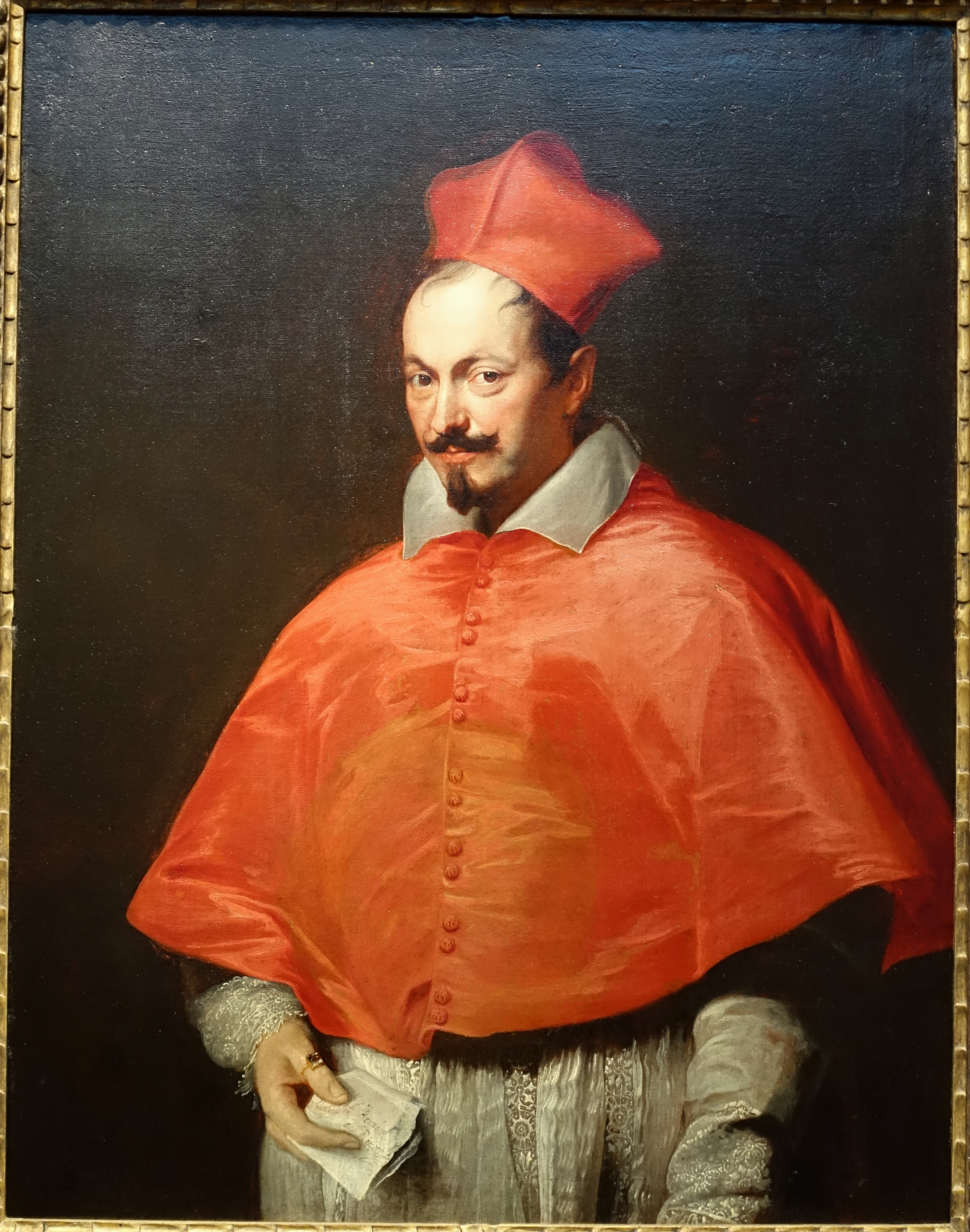 Exhibit in the Portland Art Museum - Portland, Oregon, USA.